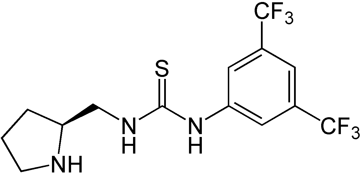 Structure of one thiourea organocatalyst.